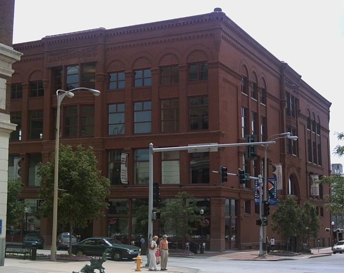 The Redstone Building in Davenport, Iowa, which was home to the original Von Maur department store and is now home to the River Music Experience.